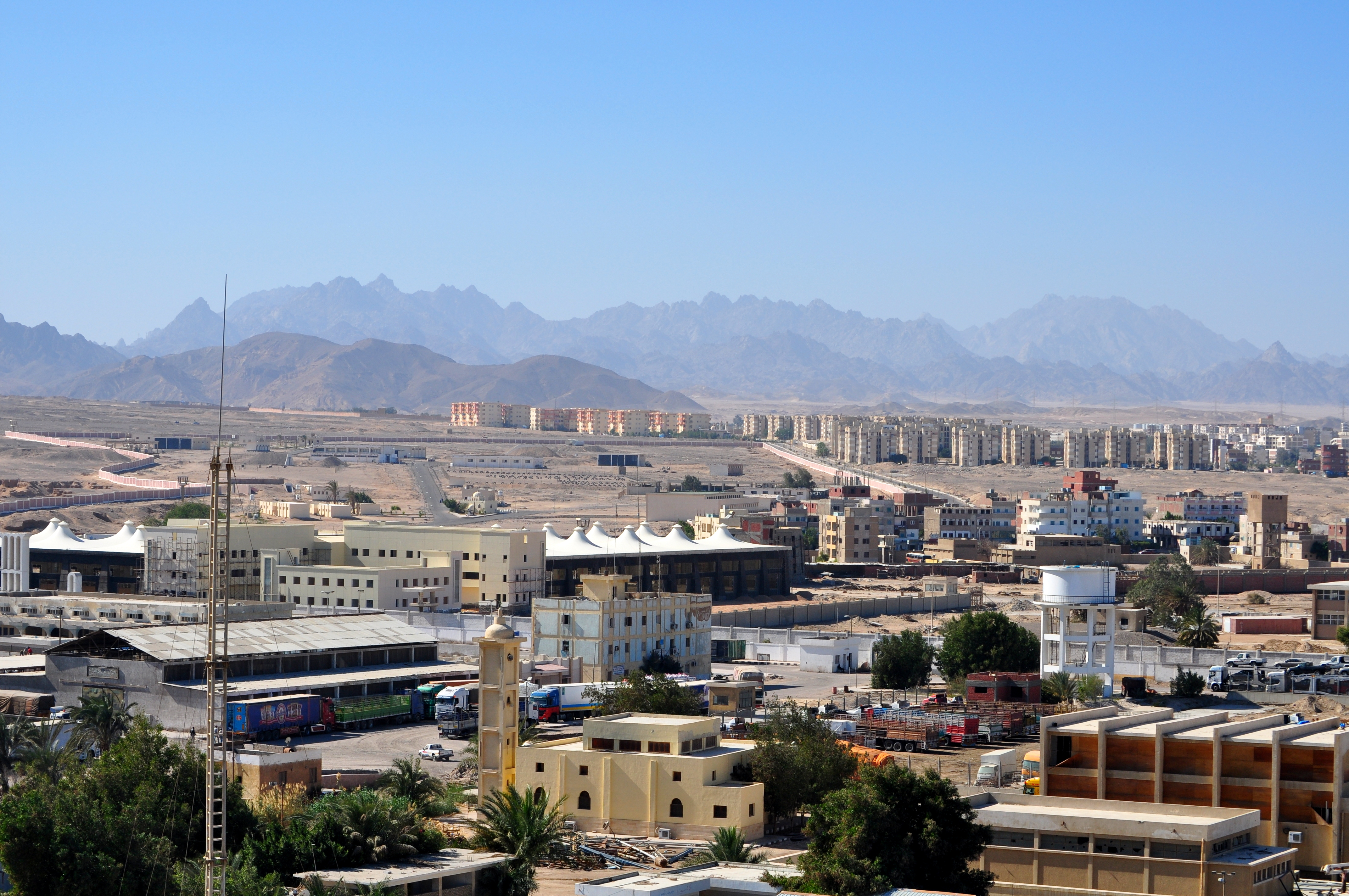 Photos taken from cruise ship and on land